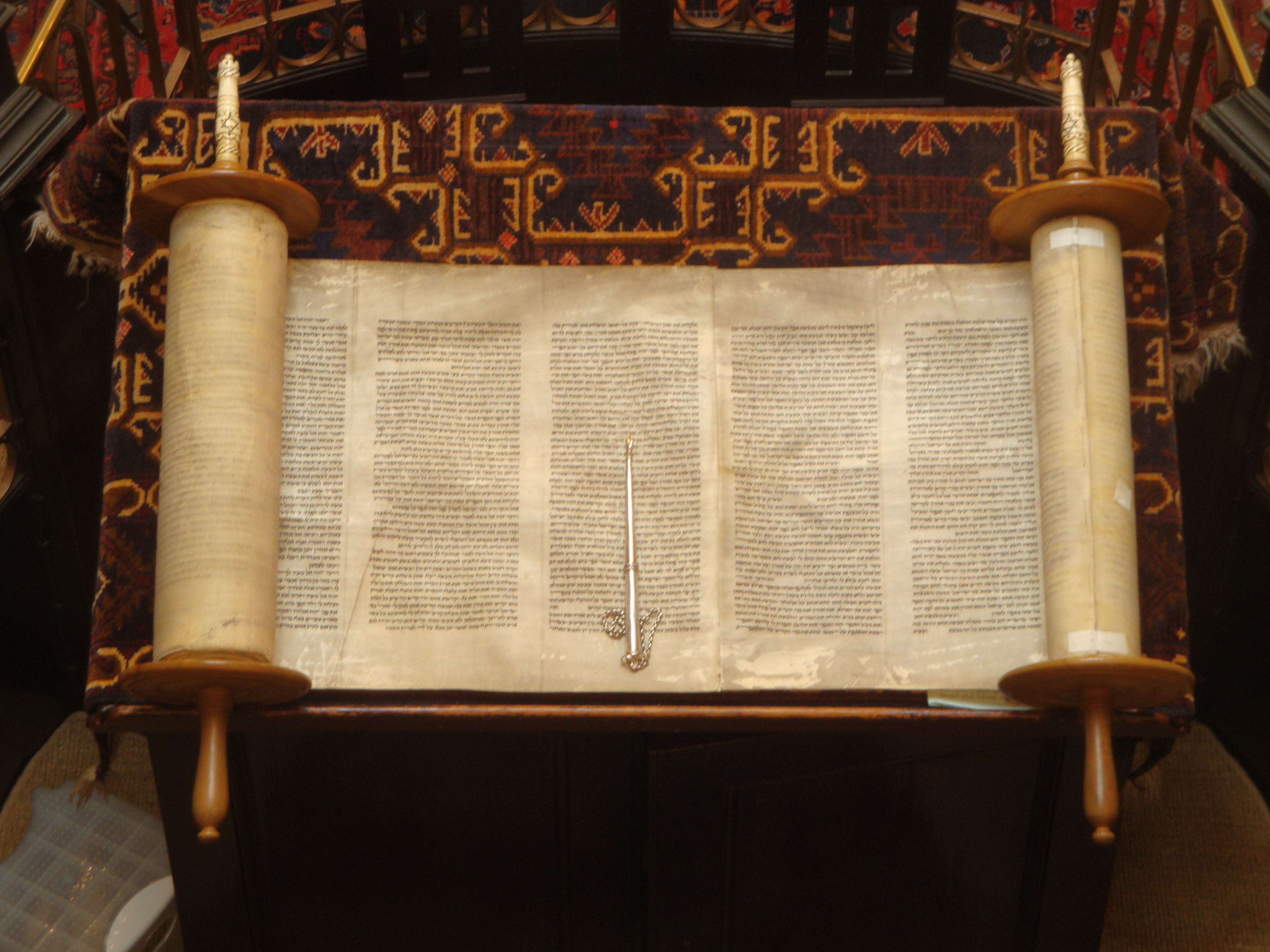 The Torah, the Jewish Holy Book.